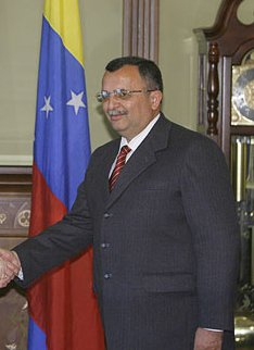 Venezuelan Vice President Ramon Carrizales